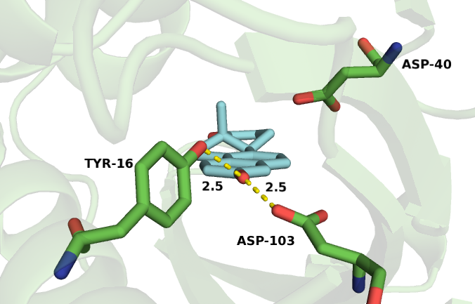 Equilenin bound to the ketosteroid isomerase active site from the vantage of the oxyanion hole. (PDB: 1OH0, from pseudomonas putida)